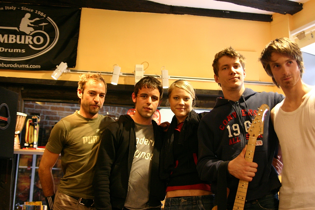 Lunik, a trip-hop band from Switzerland, In Store Gig, Lüneburg